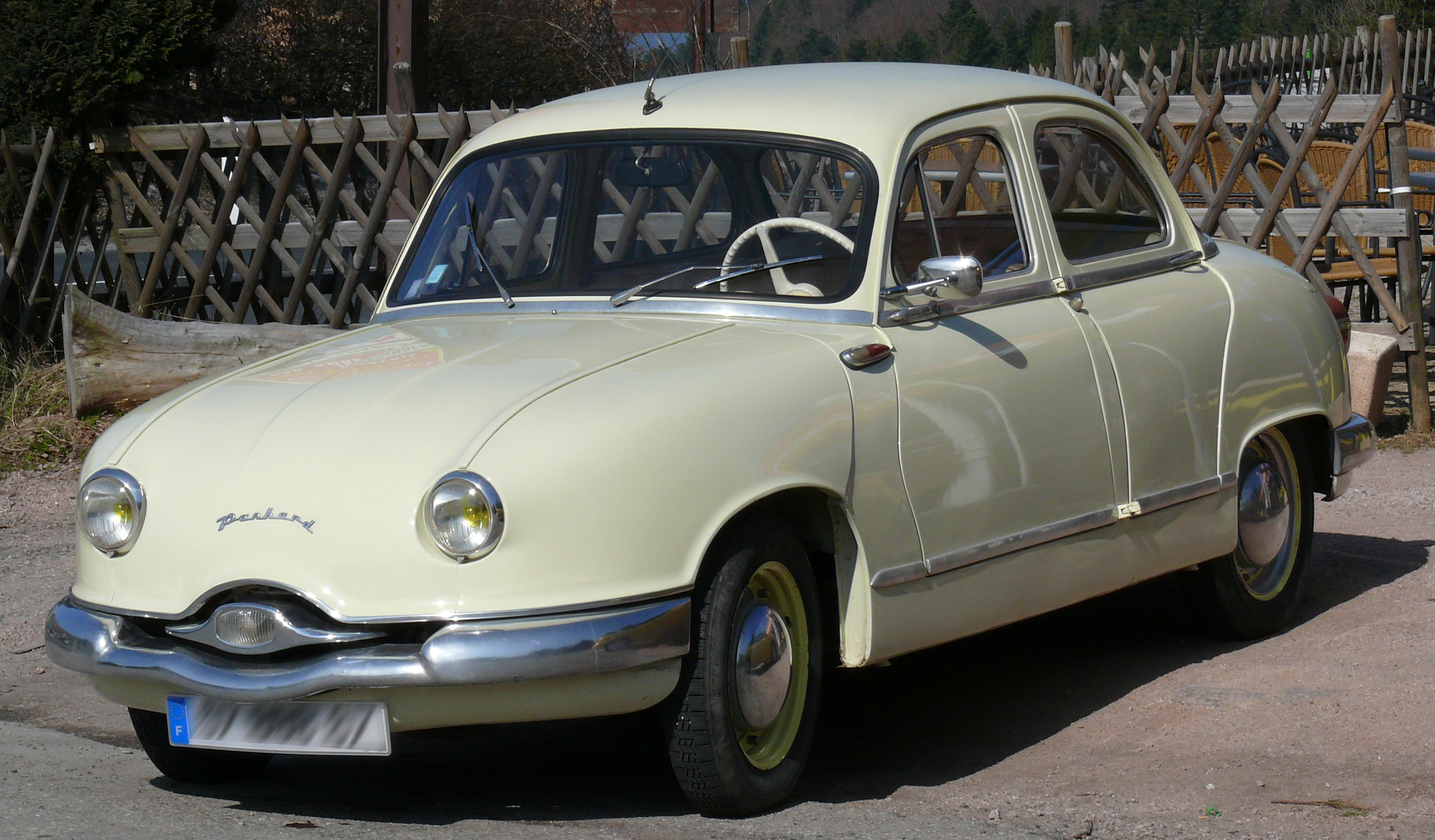 Panhard Dyna Z